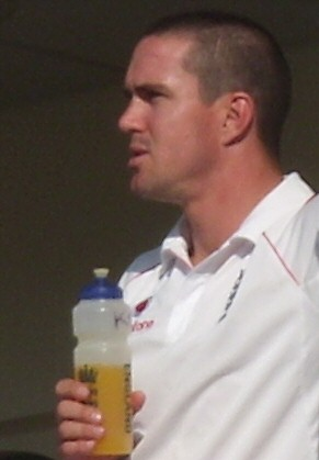 England cricket Captain Kevin Pietersen at The Oval